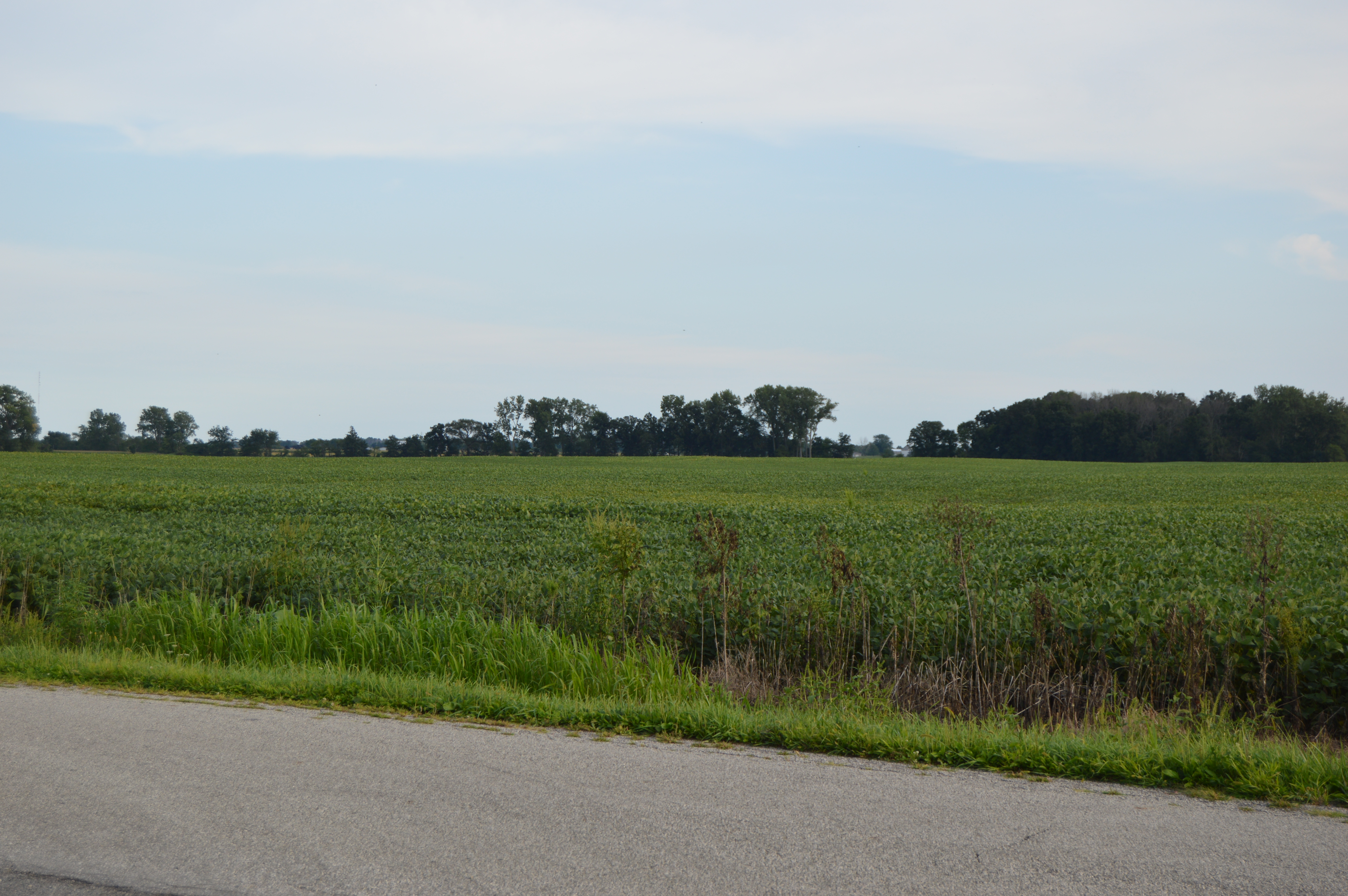 Looking southeast from the junction of Monnett and Crawford Marion Line Roads over fields on the northern edge of Scott Township, Marion County, Ohio, United States.